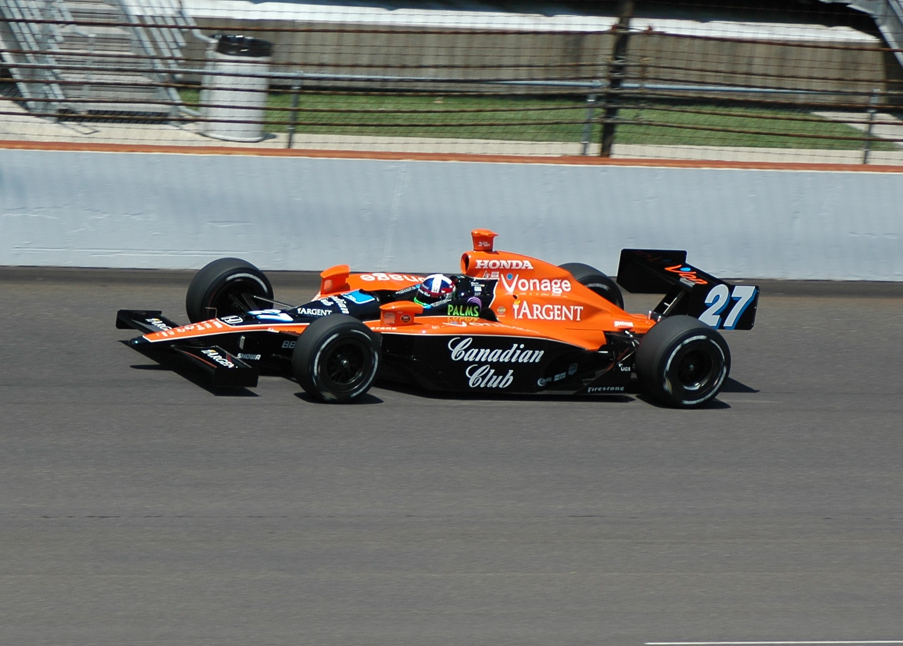 Dario Franchitti practicing for the en:2007 Indianapolis 500. He won the race.